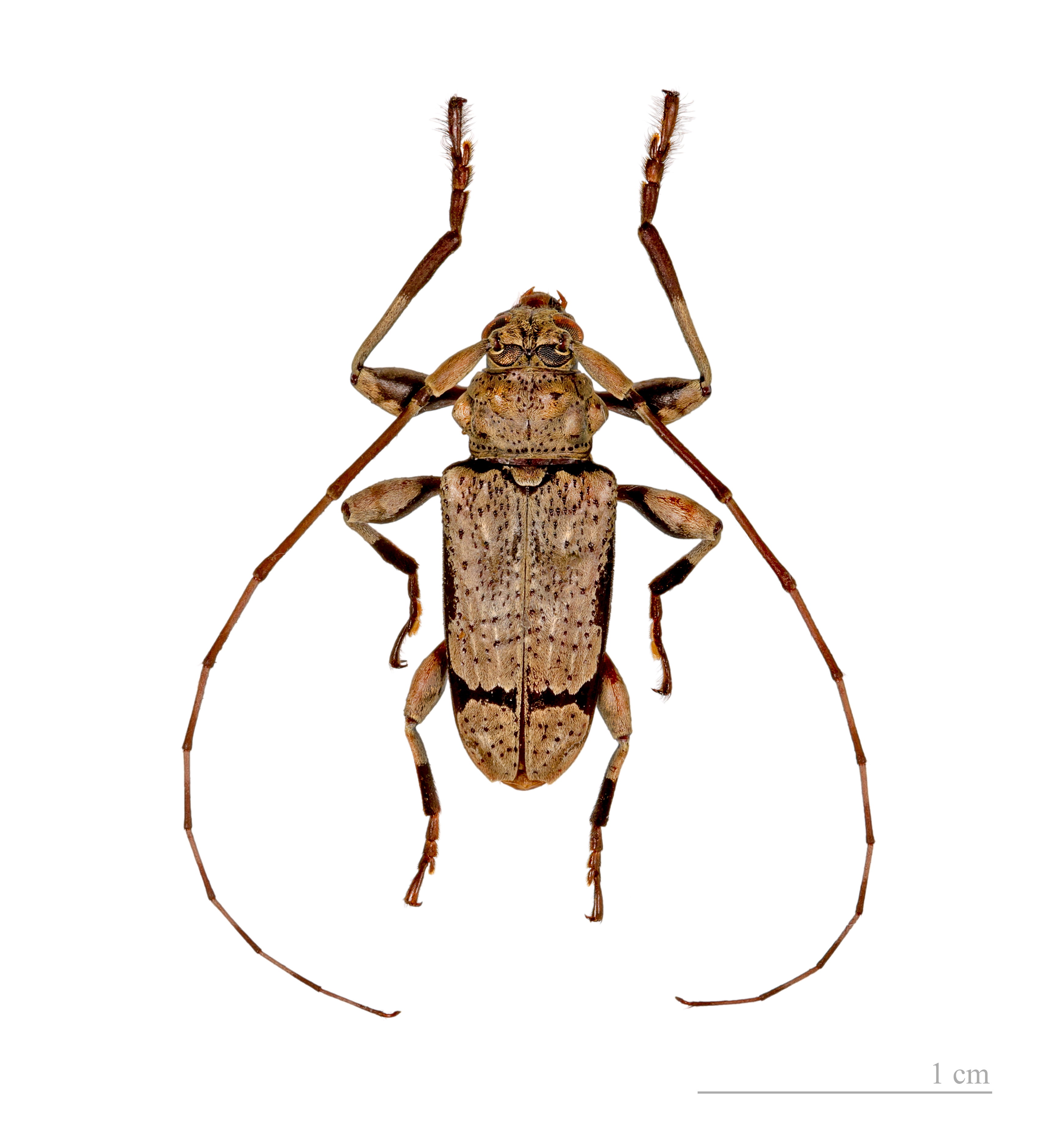 ♂ Dorsal side Locality : “PK45 route de Kaw, Carbet Ostrom”, French Guiana